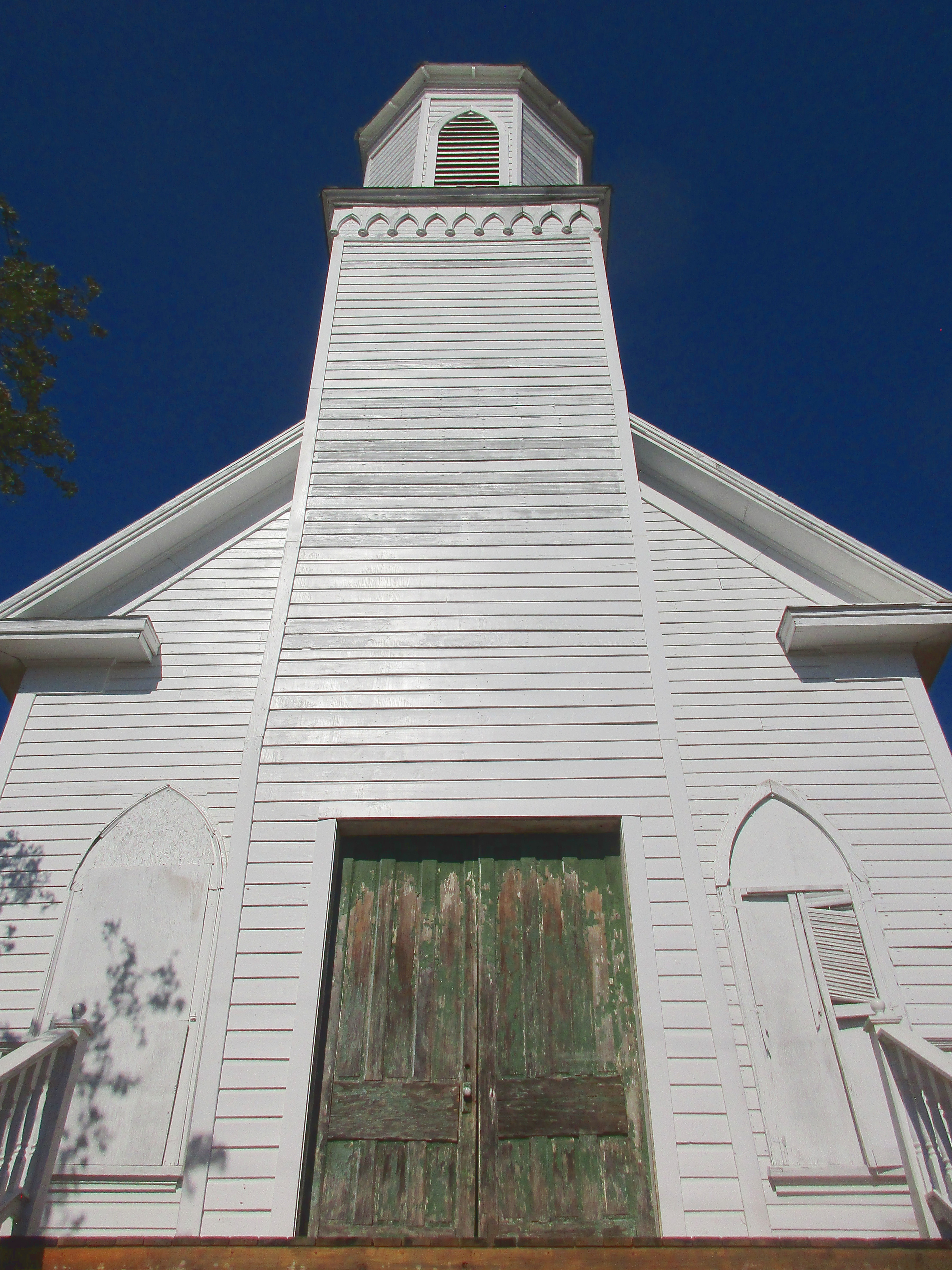 Smartsville